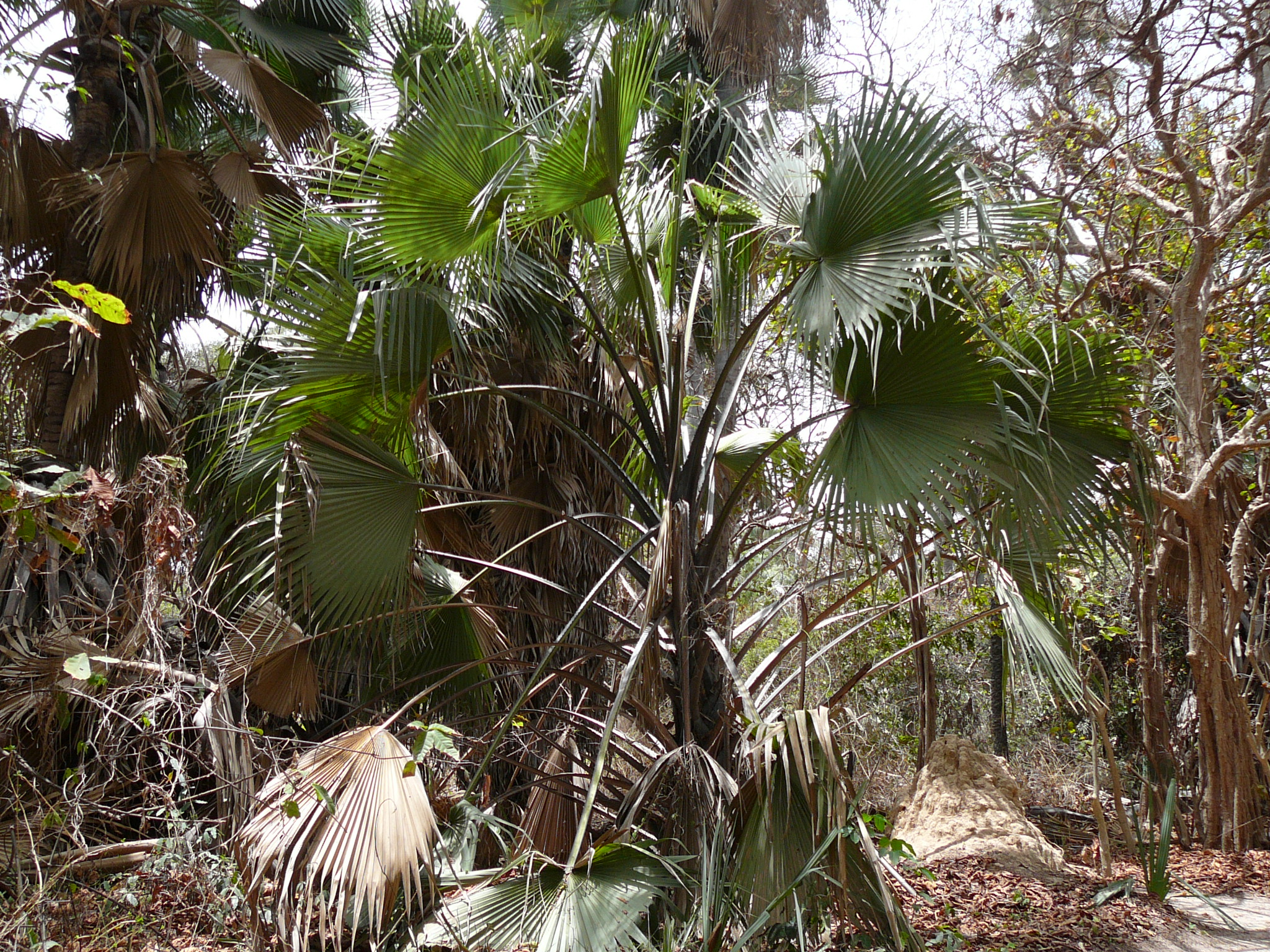 African Palmyra Palm